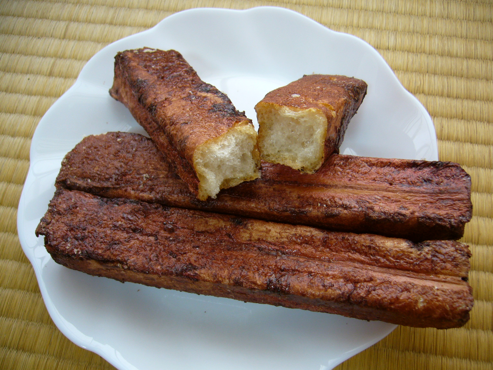 hu-gashi,wheat-confectionery,japan